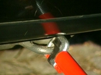 Towing eye